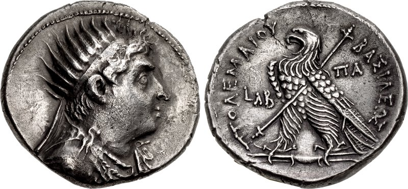 Published by Hazzard Triton XXII, Lot: 428. Estimate $5000. Sold for $17000. This amount does not include the buyer’s fee. PTOLEMAIC KINGS of EGYPT. Ptolemy VIII Euergetes II (Physcon). 145-116 BC. AR Tetradrachm (28mm, 12.87 g, 12h). Paphos mint. Dated RY 32 (139/8 BC). Radiate, diademed, and draped bust right / BAΣIΛEΩΣ ΠTOΛEMAIOY, eagle standing left on winged thunderbolt, transverse scepter running below near wing; L ΛB (date) to left, ΠA to right. Olivier 2138 var. (D360/R– [unlisted rev. die]); R. A. Hazzard, Ptolemaic Coins: An Introduction for Collectors (Toronto, 1995), fig. 24 (this coin); otherwise unpublished. Good VF, toned, hairline flan crack, some roughness on obverse. Extremely rare, the second known of this issue, the other in Paris (BnF 369c). From the collection of a Northern California Gentleman, purchased from Frank Kovacs, 1996. One of the more infamous Ptolemaic rulers, Ptolemy VIII Euergetes, nicknamed Physcon (“Pot Belly”), cut a bloody swath to gain and retain the throne of Egypt. One of three children of Ptolemy V Epiphanes, Physcon ruled jointly with his siblings in various arrangements, sometimes harmonious but usually contentious, from 170 BC to 145 BC, when his brother Ptolemy VI was killed in battle. To gain absolute power, he tricked his sister Cleopatra II into a very Ptolemaic sibling marriage, then murdered her son and married her daughter, Cleopatra III, creating a rather awkward and tempestuous menage a trois that led to civil war and further familial bloodletting. Circa 139 BC, Physcon took the unusual step of placing his own portrait on silver tetradrachms issued at the mint of Paphos on Cyprus. The bloated radiate portrait recalls similar issues in gold of his namesake Ptolemy III Euergetes, who shared his portly physique. An entertaining dramatization of this deeply decadent reign is available via the 1980s BBC TV series The Ptolemies, watchable on YouTube.